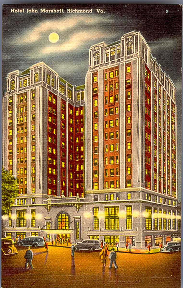 Hotel John Marshall in Richmond, Virginia, ca. 1930s-1940s